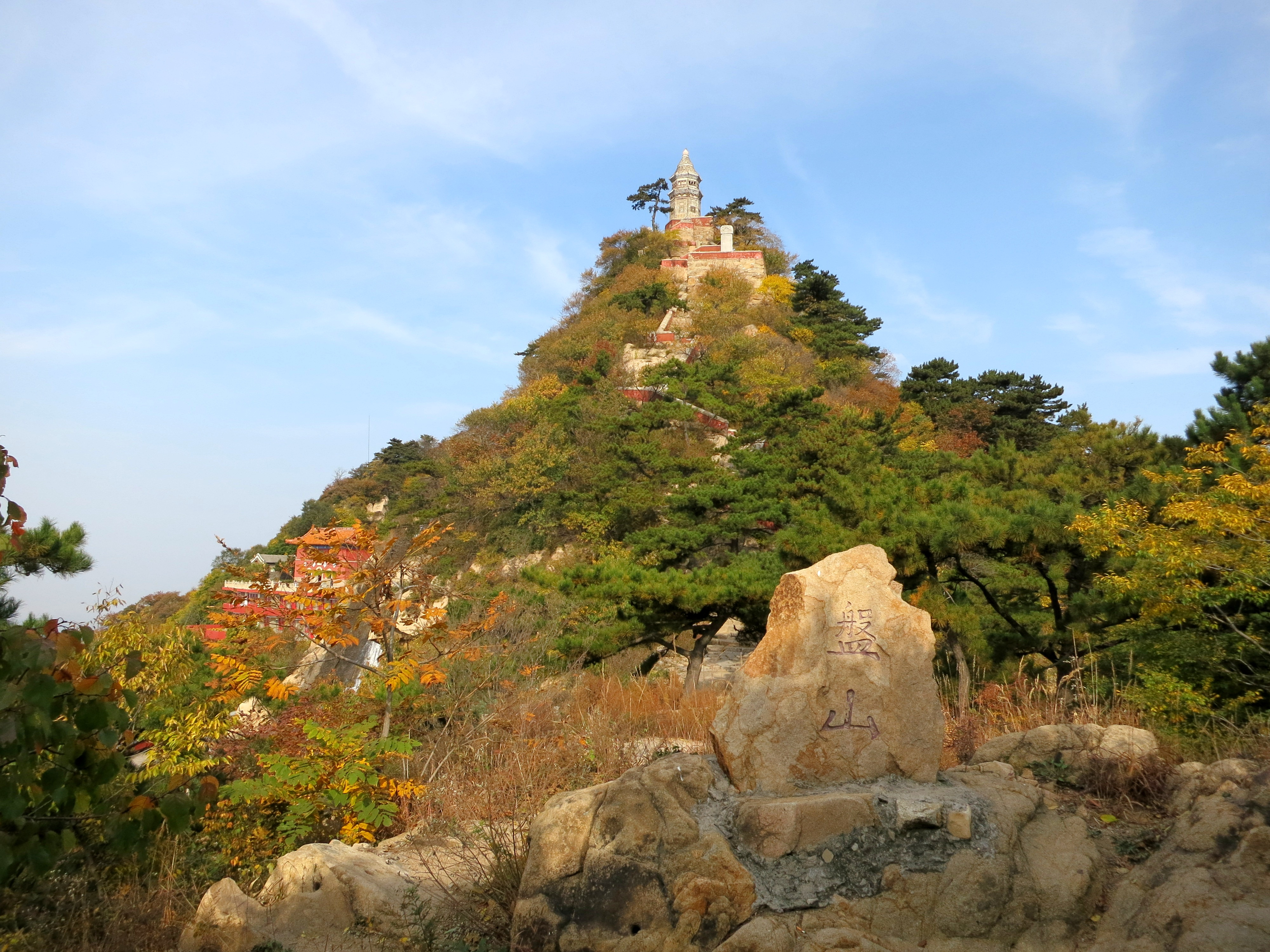 盘山顶峰 - Summit of Mount Panshan - 2015.10